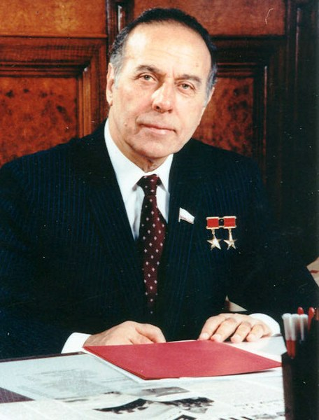 Twice Hero of Socialist Labor Heydar Aliyev